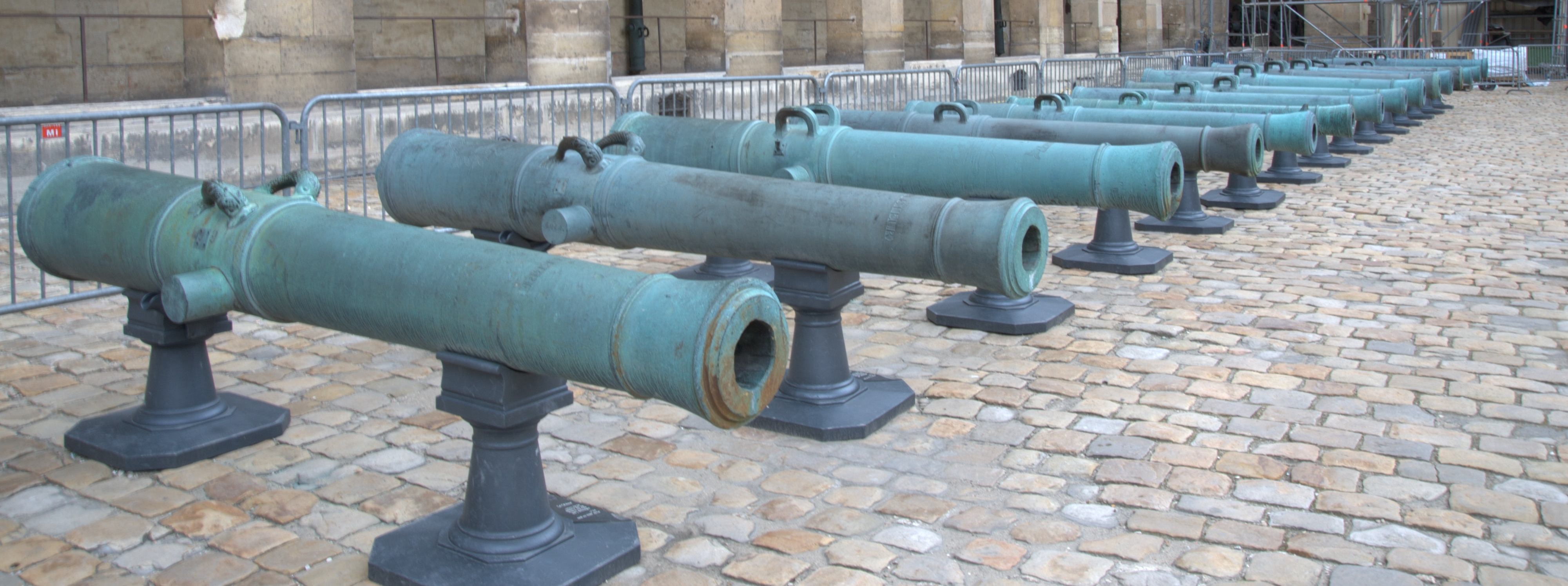 Canons Gribeauval the Army Museum Paris